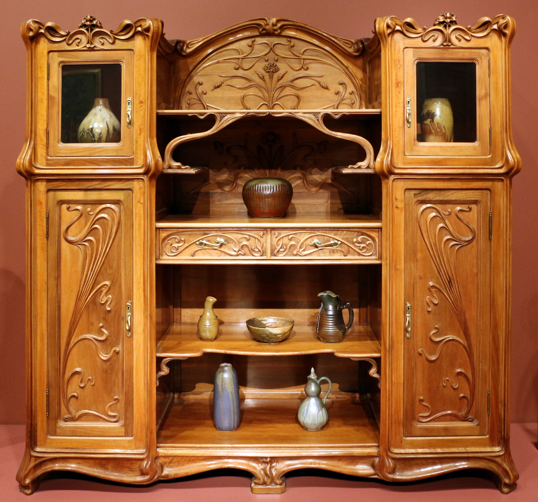 European furniture in the Art Institute of Chicago